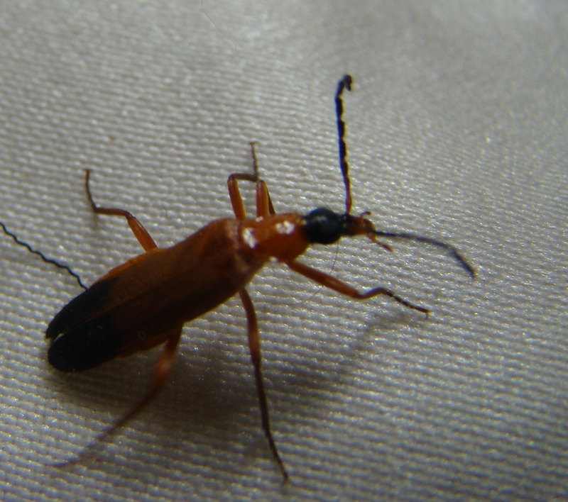 Idgia arabica Champion, 1919, family Prionoceridae (soft-winged flower beetles) from Yemen. Species is proverbially known in Yemen as "grape soldier beetle", because it is most active during grape-harvesting season.